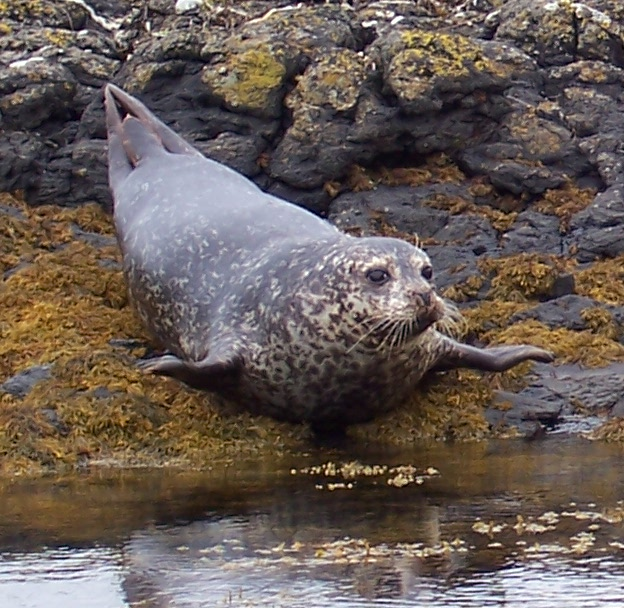 Common Seal moving towards the water using its flippers, on the Isle of Skye, near Dunvegan Castle.